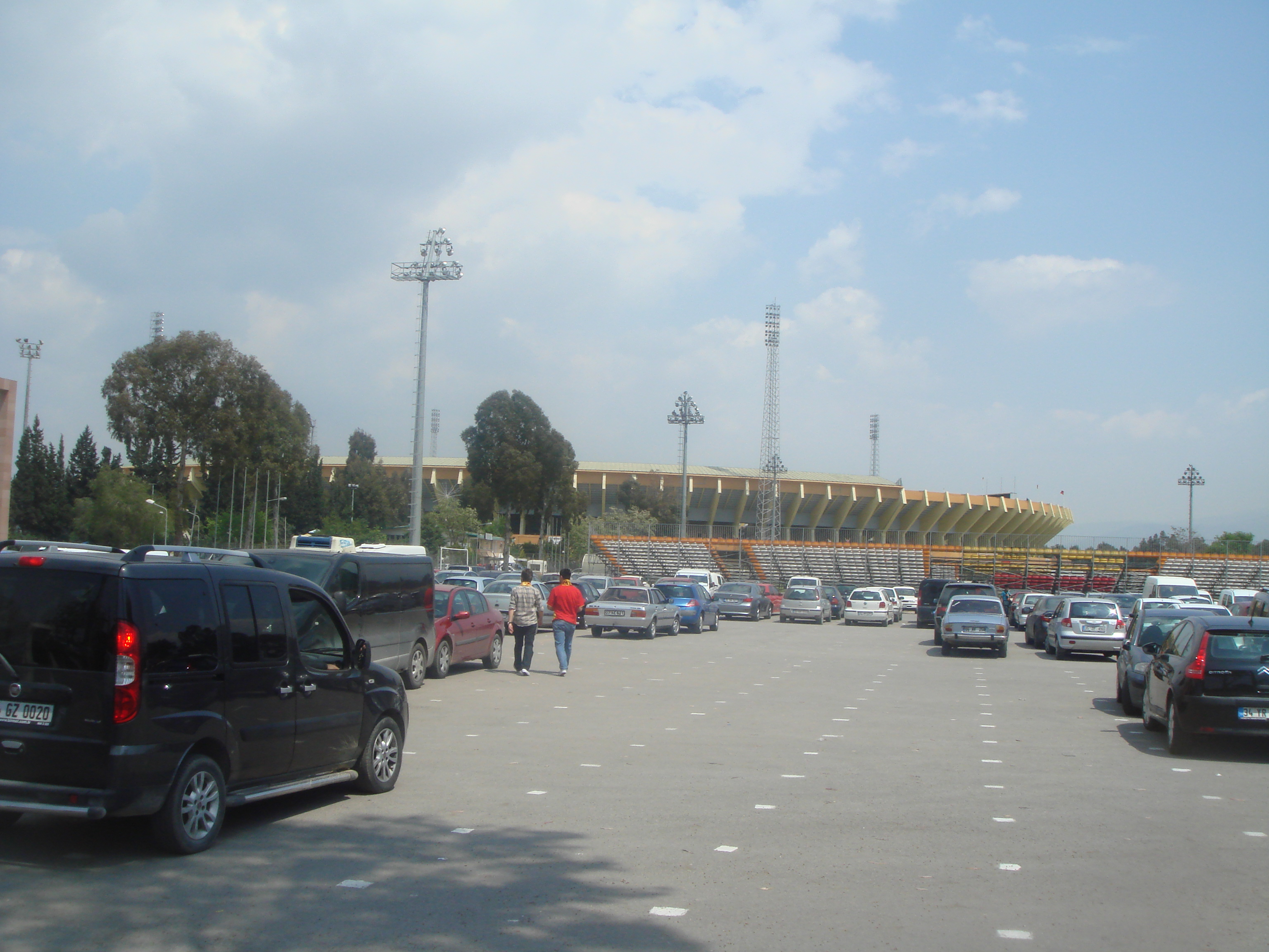 Izmir Atatürk Stadium